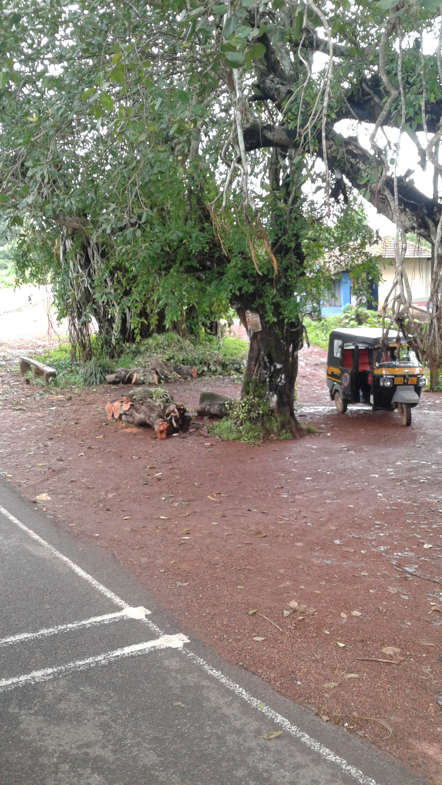 Kasaragod-Sullia Road, Kerala, India.